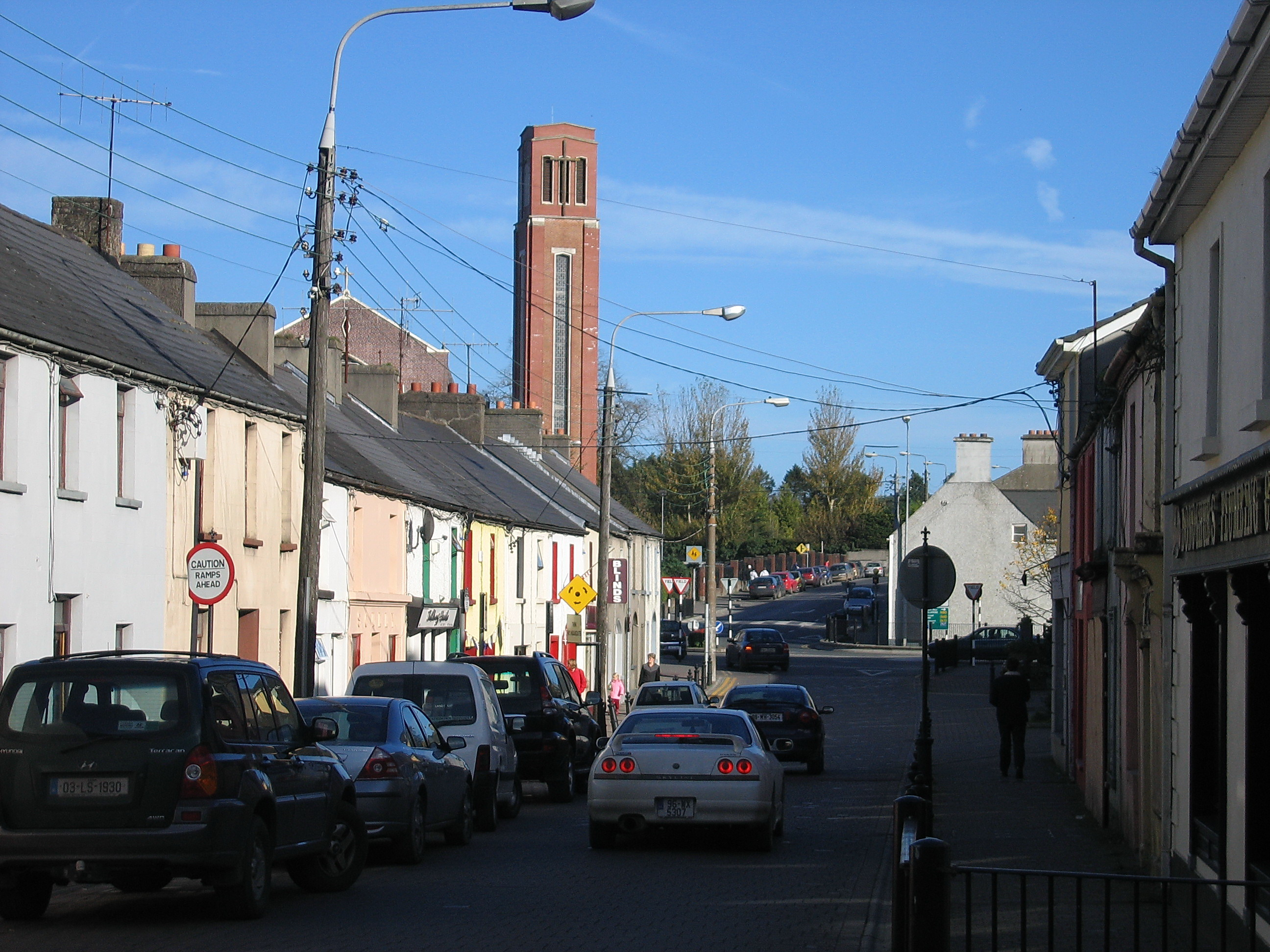 Bridge Street in Portlaoise, looking east with the Roman Catholic Parish Church of SS. Peter and Paul in the background.